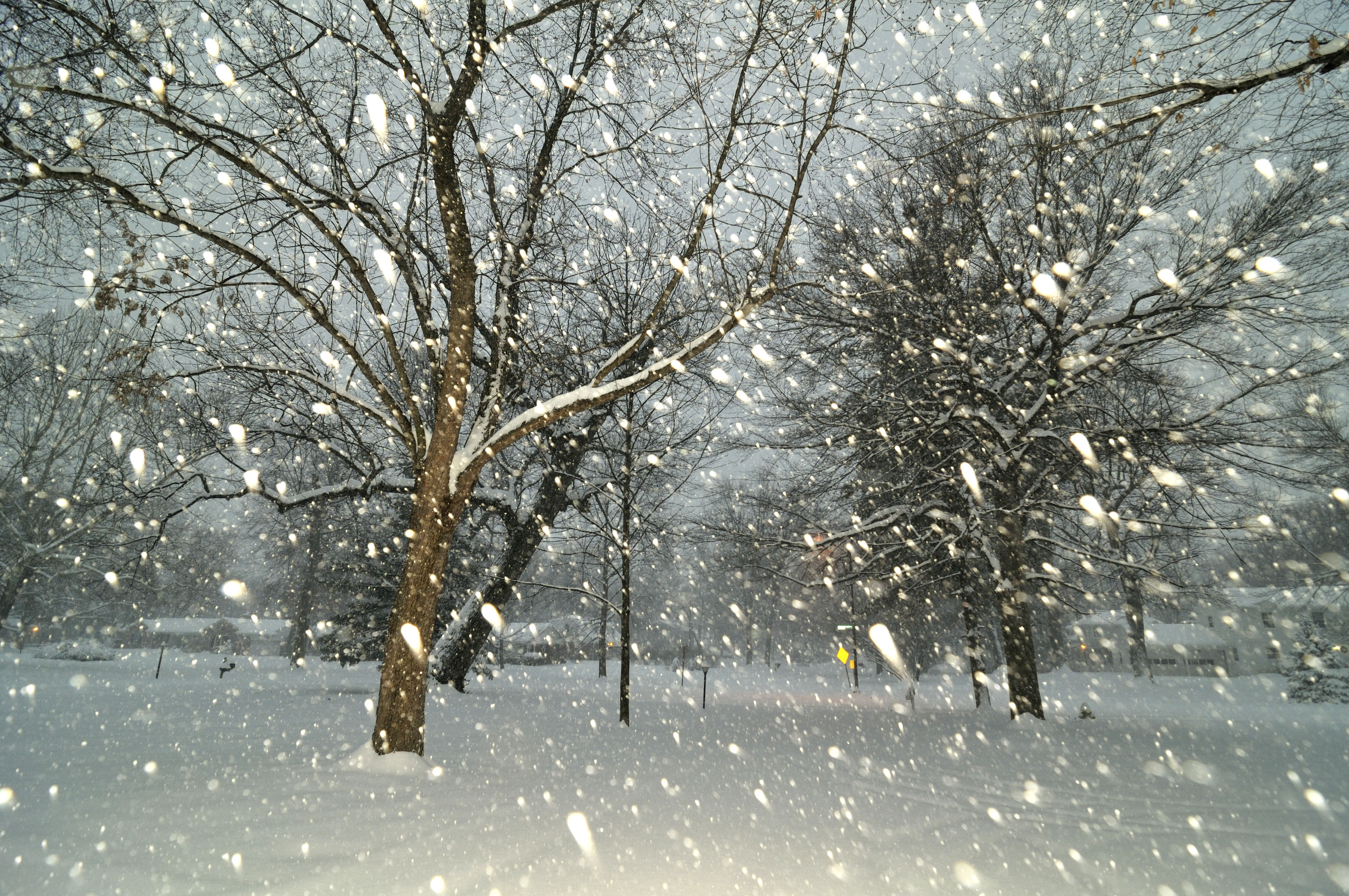 same shot. this is with flash to grab the snow flakes coming down in front of my house